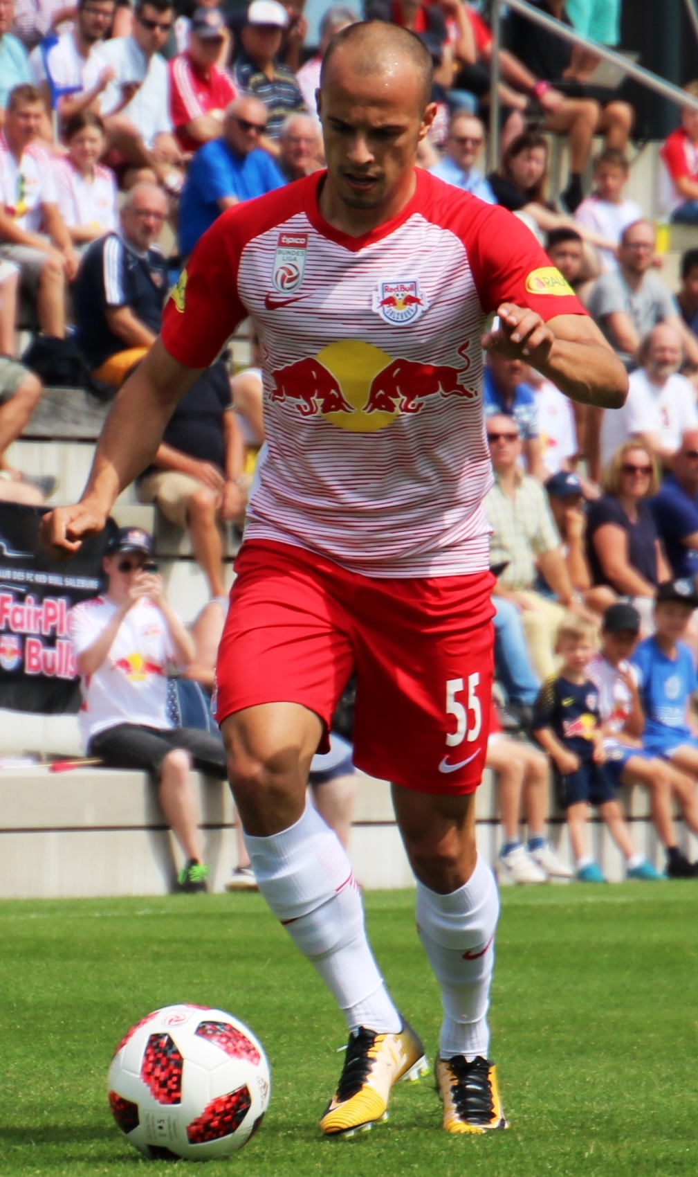 preseason match